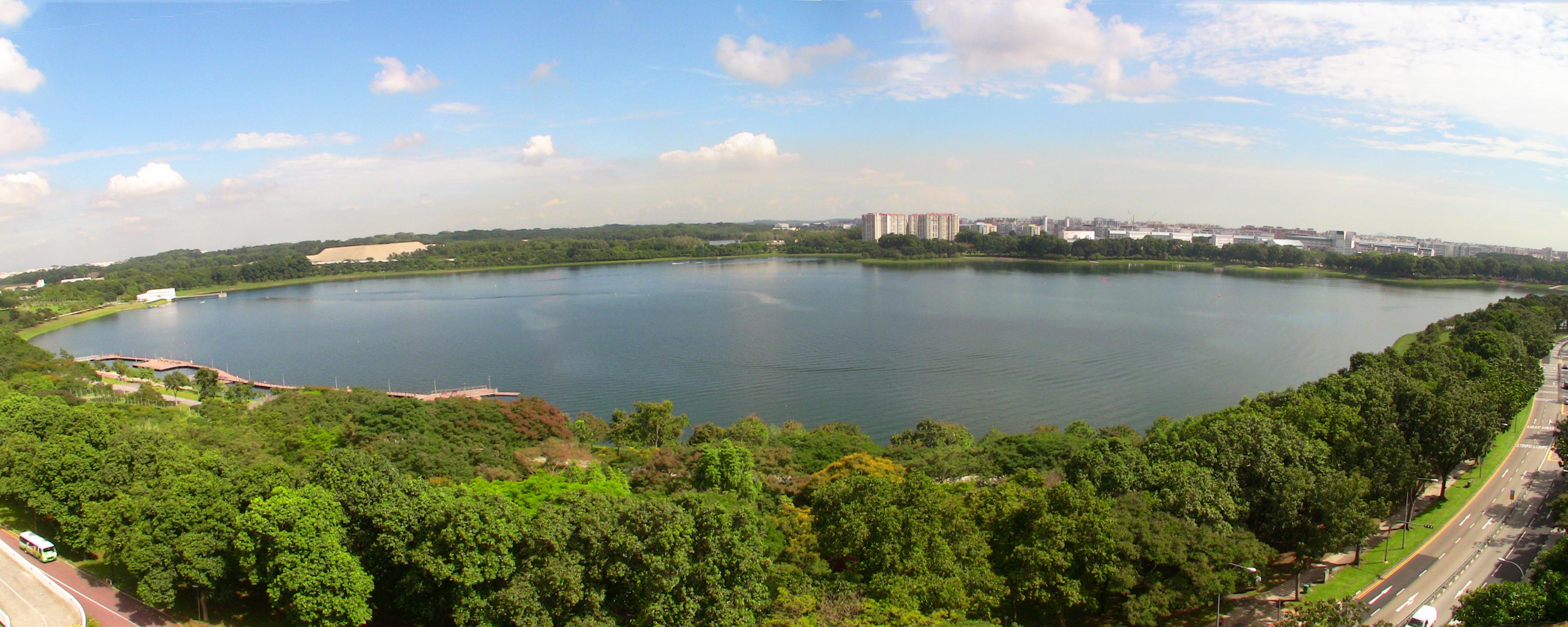 Bedok Reservoir aerial panorama 2010